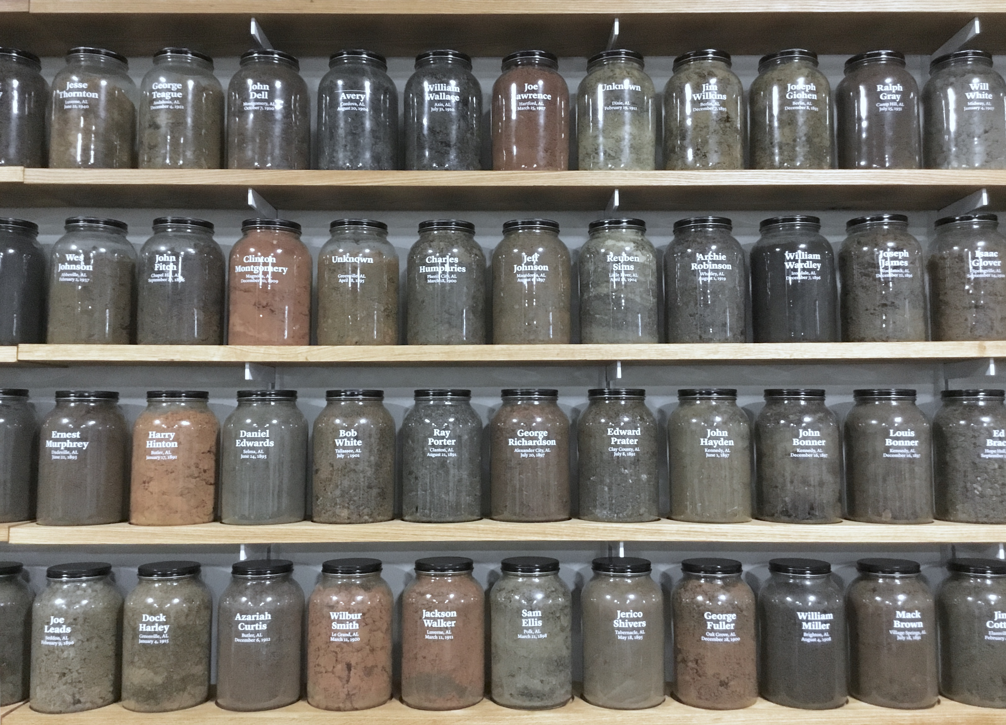 Part of the Equal Justice Initiative memorial to those persons who were lynched in Alabama because of their color. A museum is being built in Montgomery to tell the story of injustice and terror endured by people of color during long struggle from slavery till today.